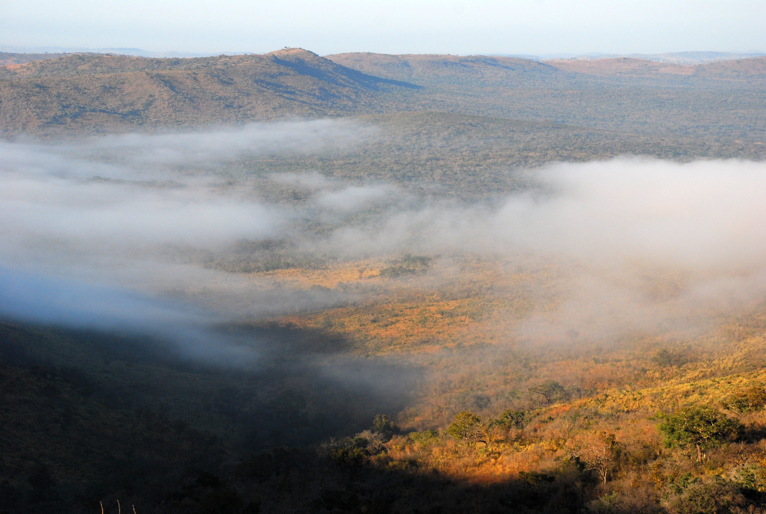 Landscape inside the Hluhluwe-Umfolozi National Park, South Africa